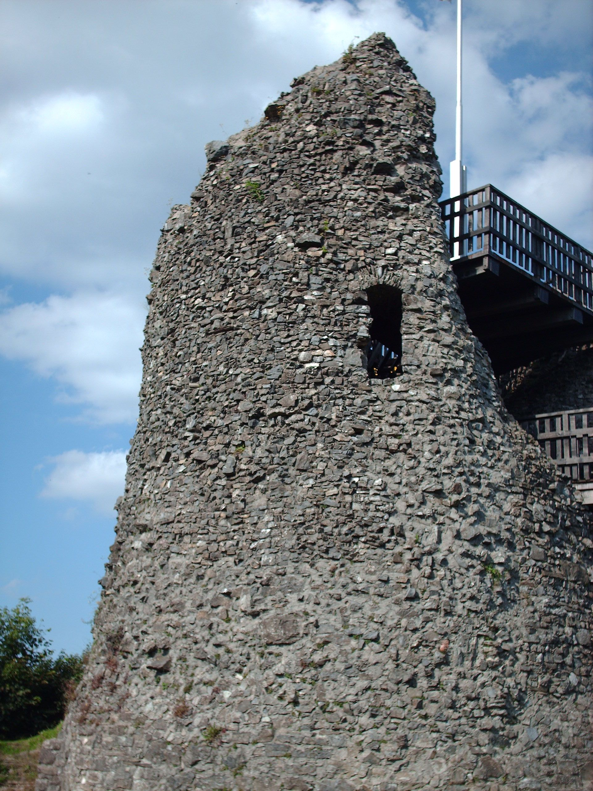 Keep of Eversberg castle, Meschede, Germany check usage